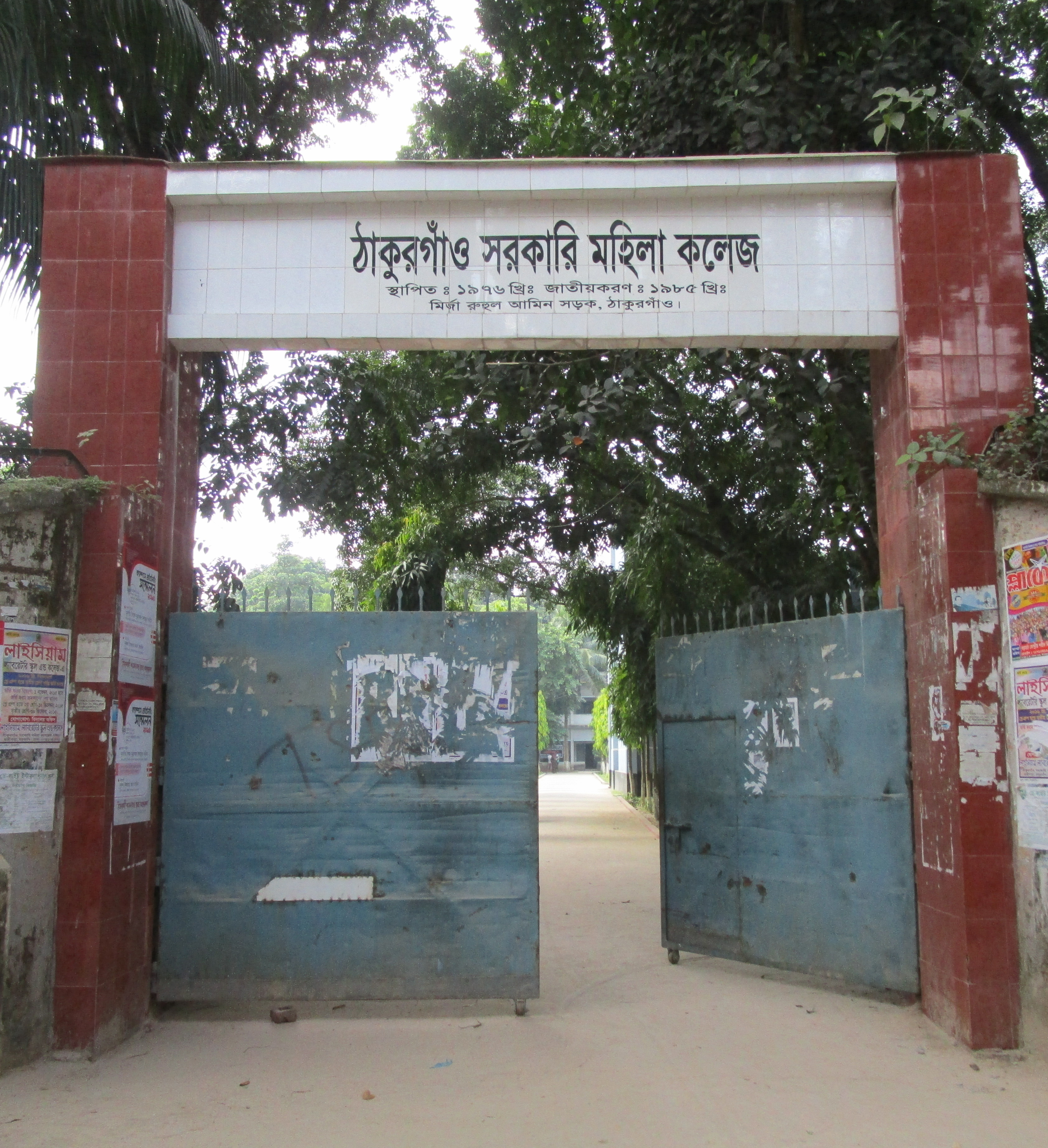 The nameplate of Thakurgaon Govt Womens College.